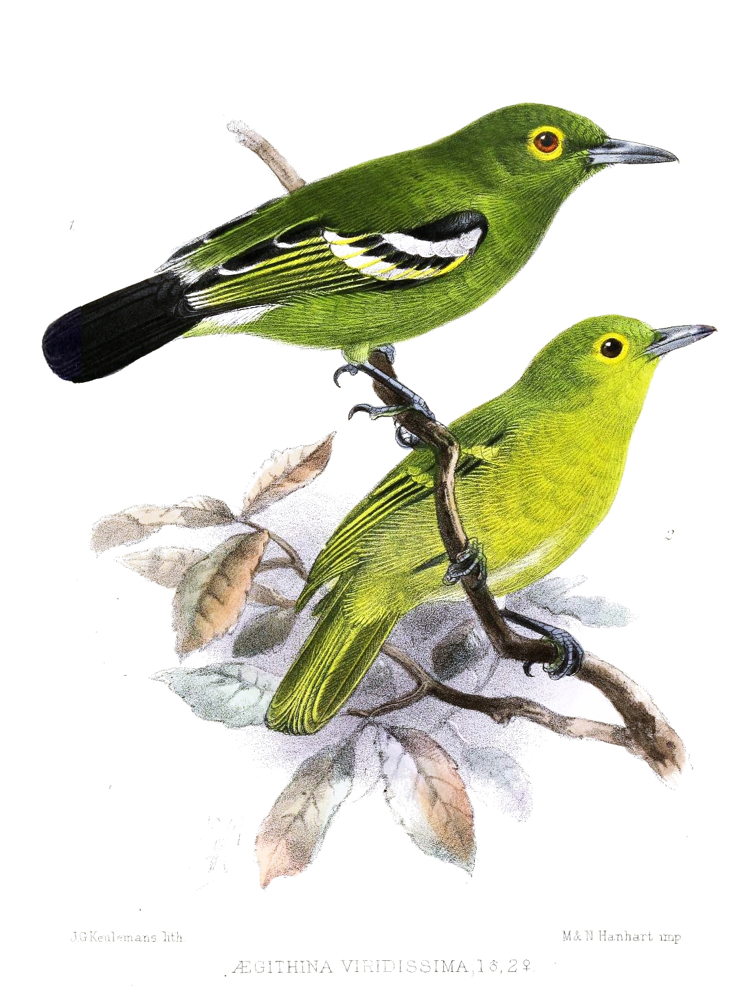 « Aegithina viridissima » = Aegithina viridissima (Green Iora)